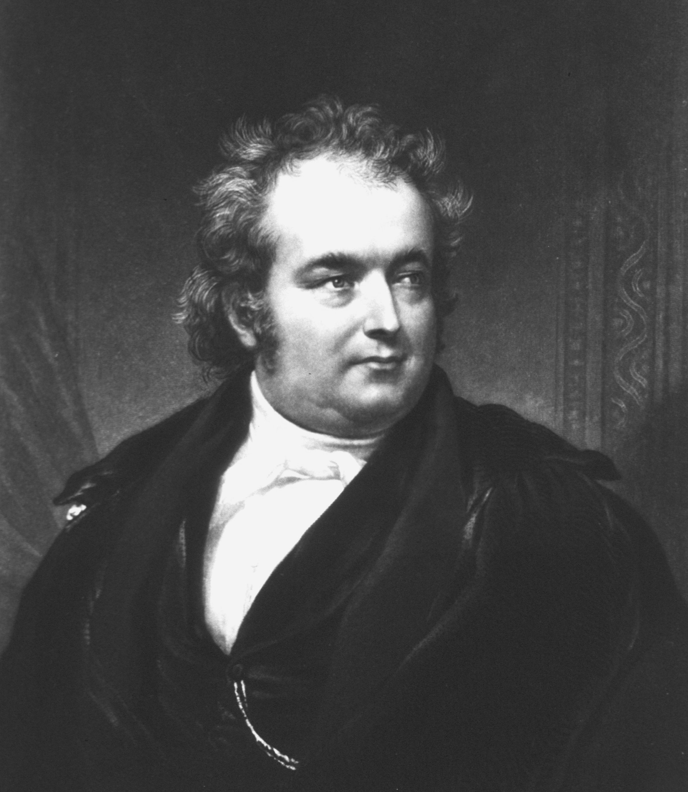 James Jay Mapes (May 29, 1806 – January 10, 1866)